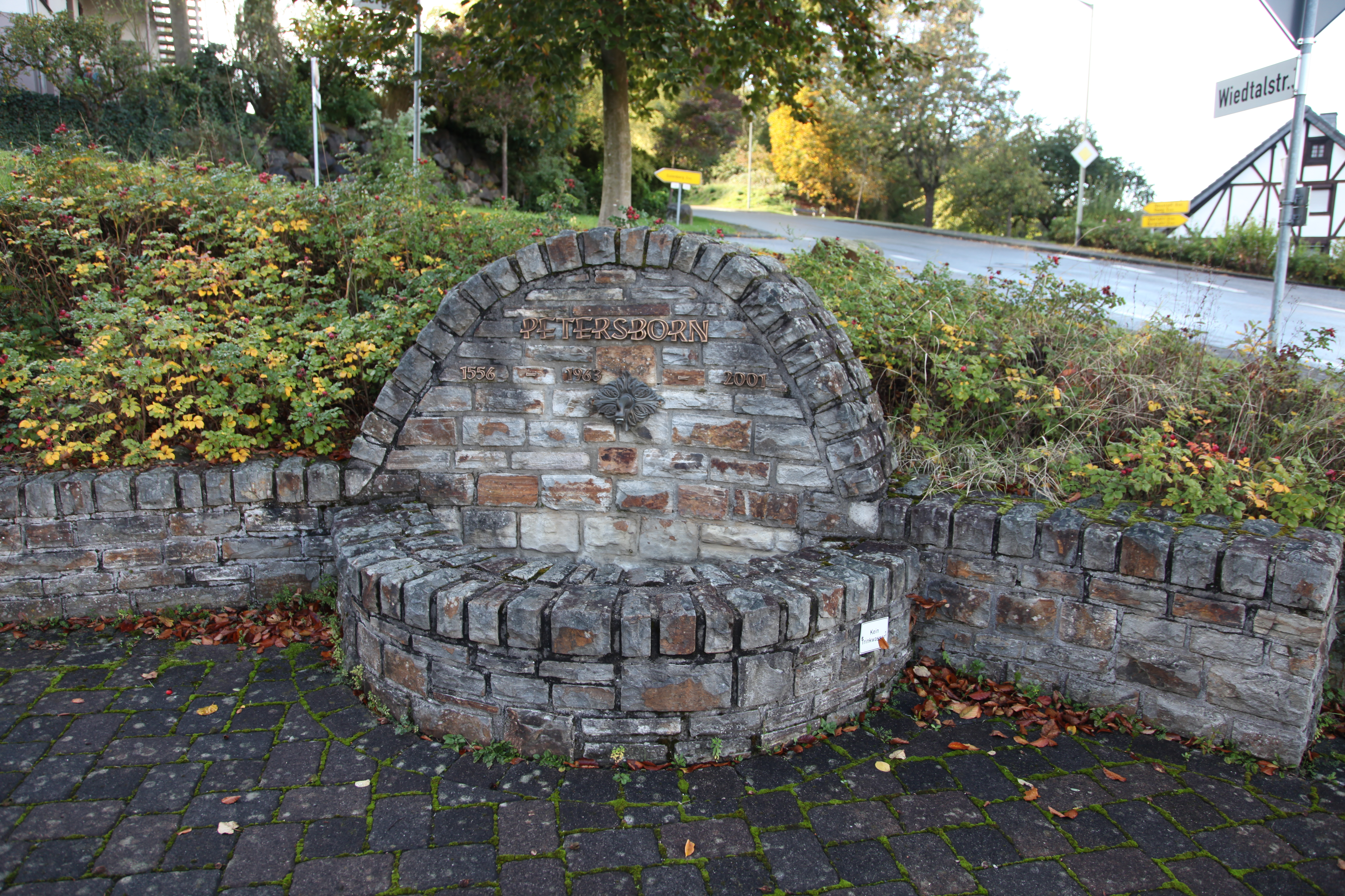 Peterslahr: ancient well, named "Petersborn", from 1556, cased new in 2001. Located at historical "Raiffeisenstrasse"